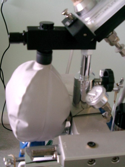 Close-up of a reservoir bag attached to a Quantiflex machine